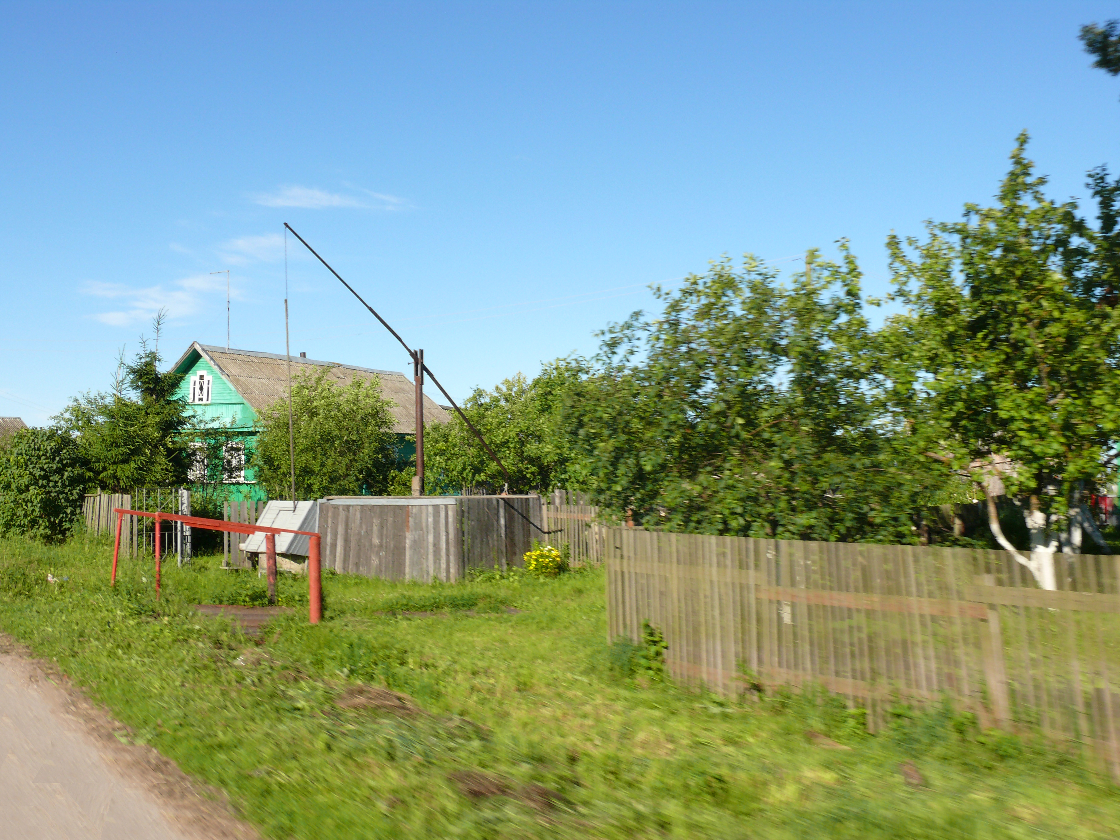 Lipitsy village. Novgorodsky district, Novgorod oblast, Russia